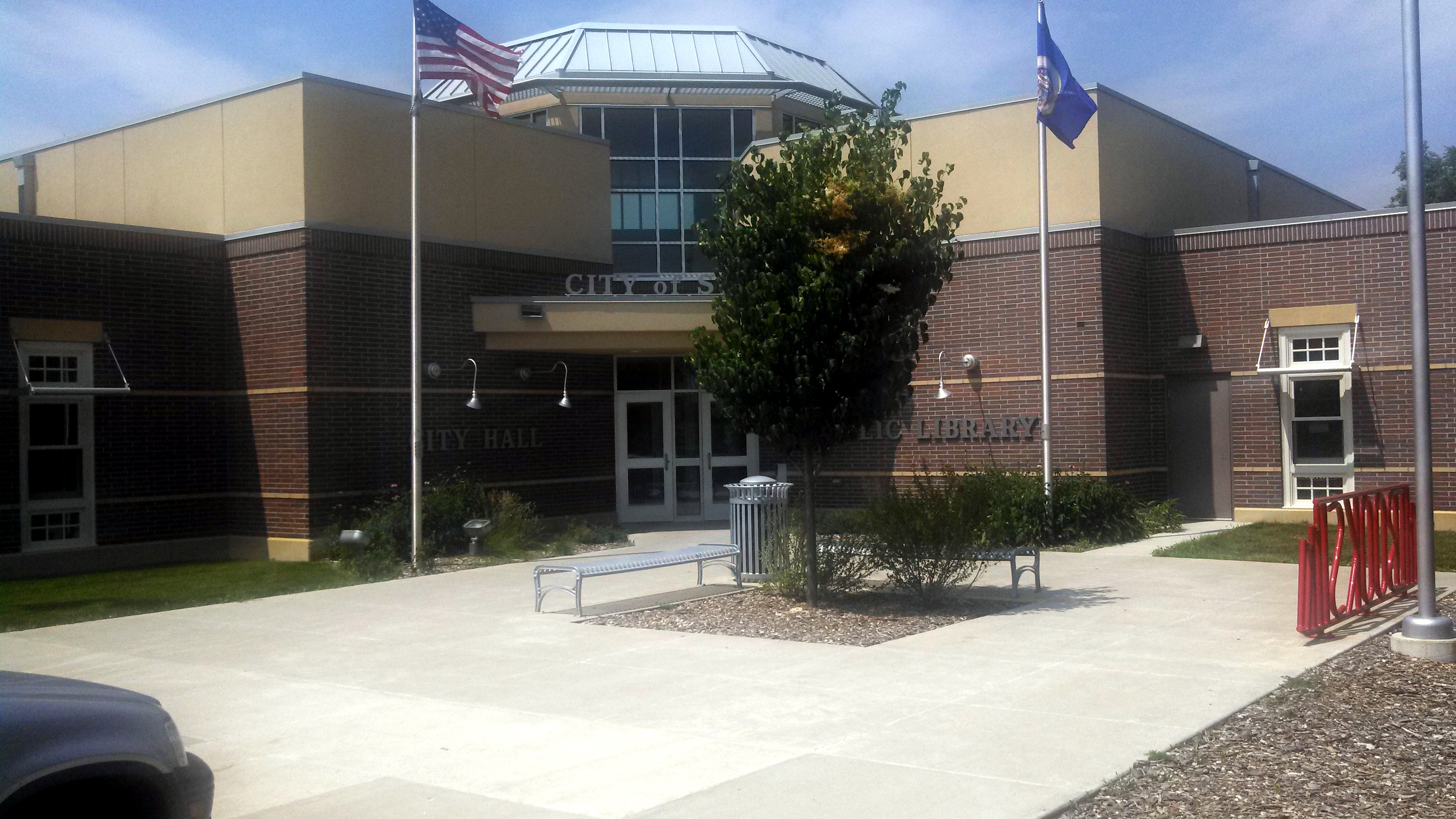 City of Staples, City Hall and Public Library, July 2013. Construction completed February of 2010.